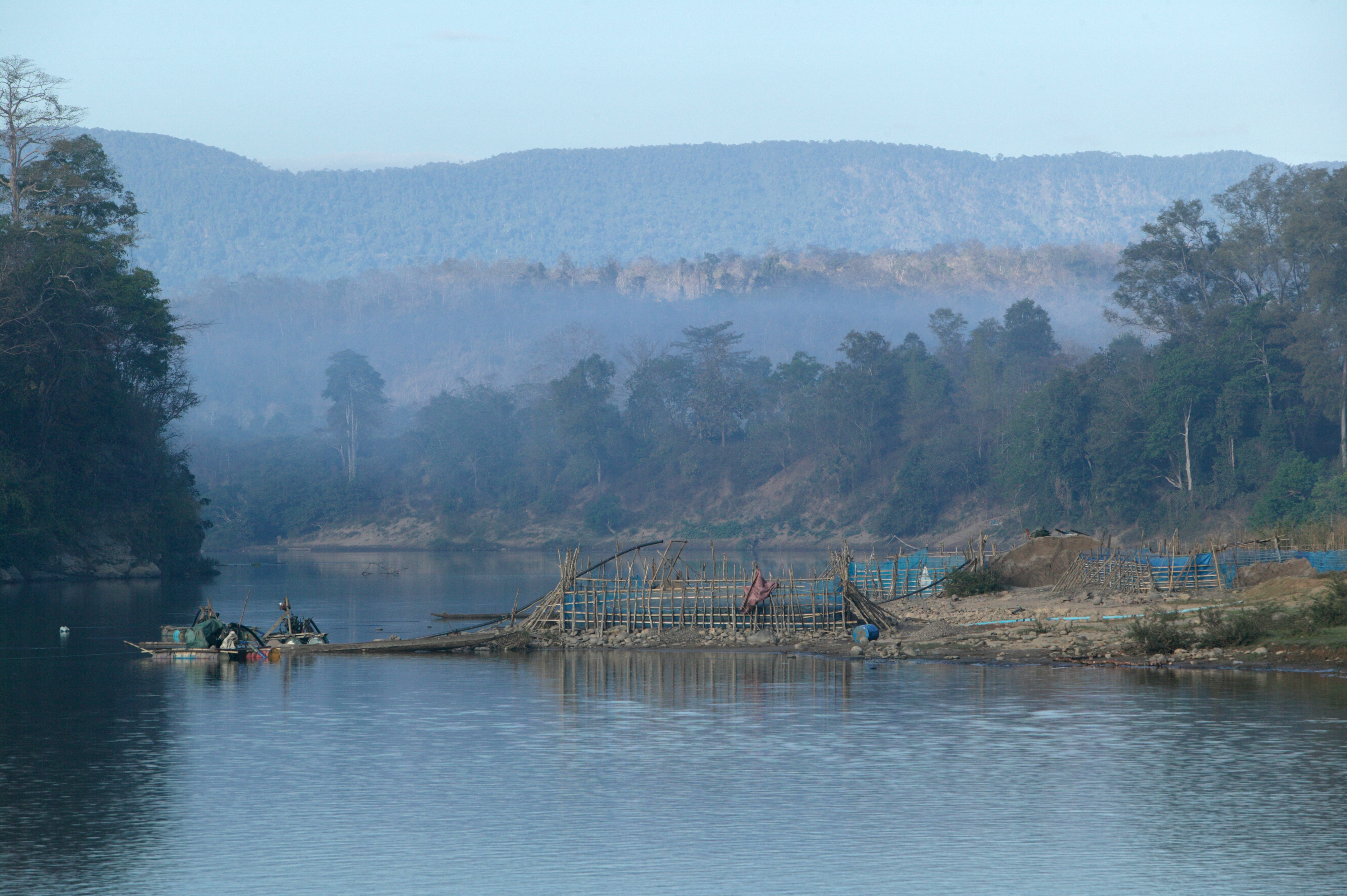 The Sekong River, Sekong, Lao PDR, 2009. Photo: Jim Holmes